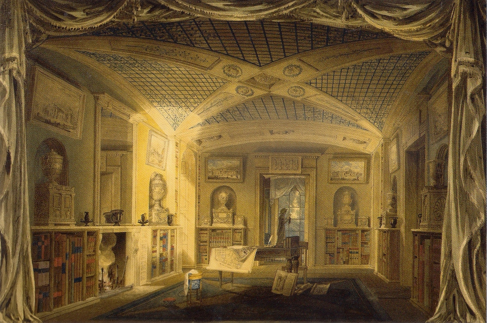 "Design for interior of the Library at Pitzhanger Manor." The watercolor drawn by Joseph Michael Gandy in 1802.